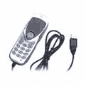 Freeware image of usbphone, modified in Photoshop so that no vendor identified